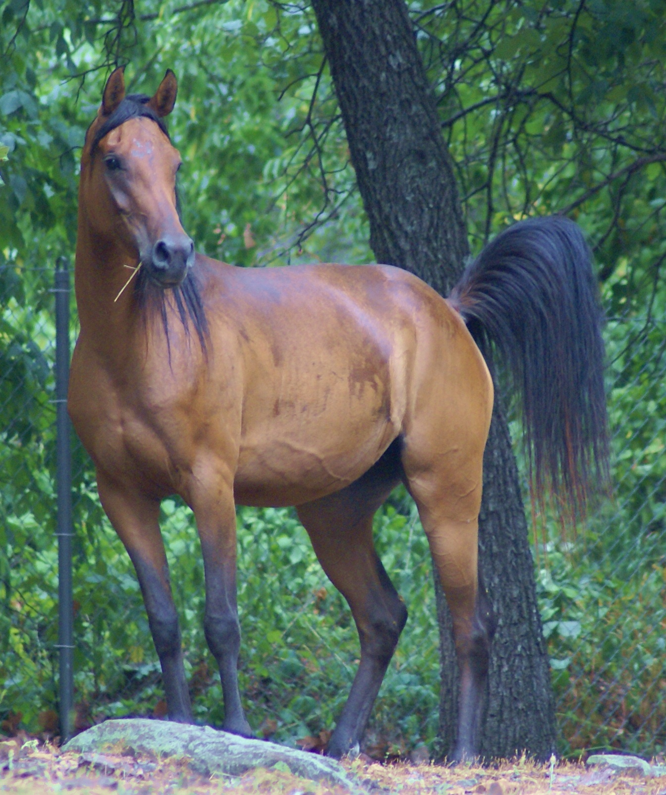 Anglo-Arabian. Debuted in Explore on August 16, 2007!